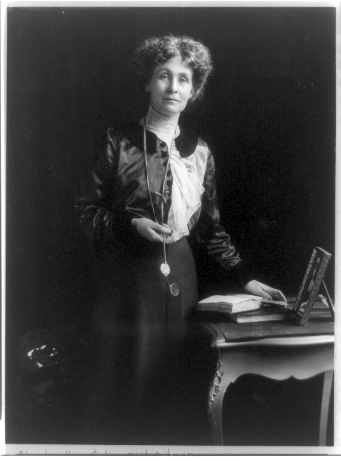 Emmeline (Goulden) Pankhurst, three-quarter length portrait, standing by small table, facing right, with left hand on book